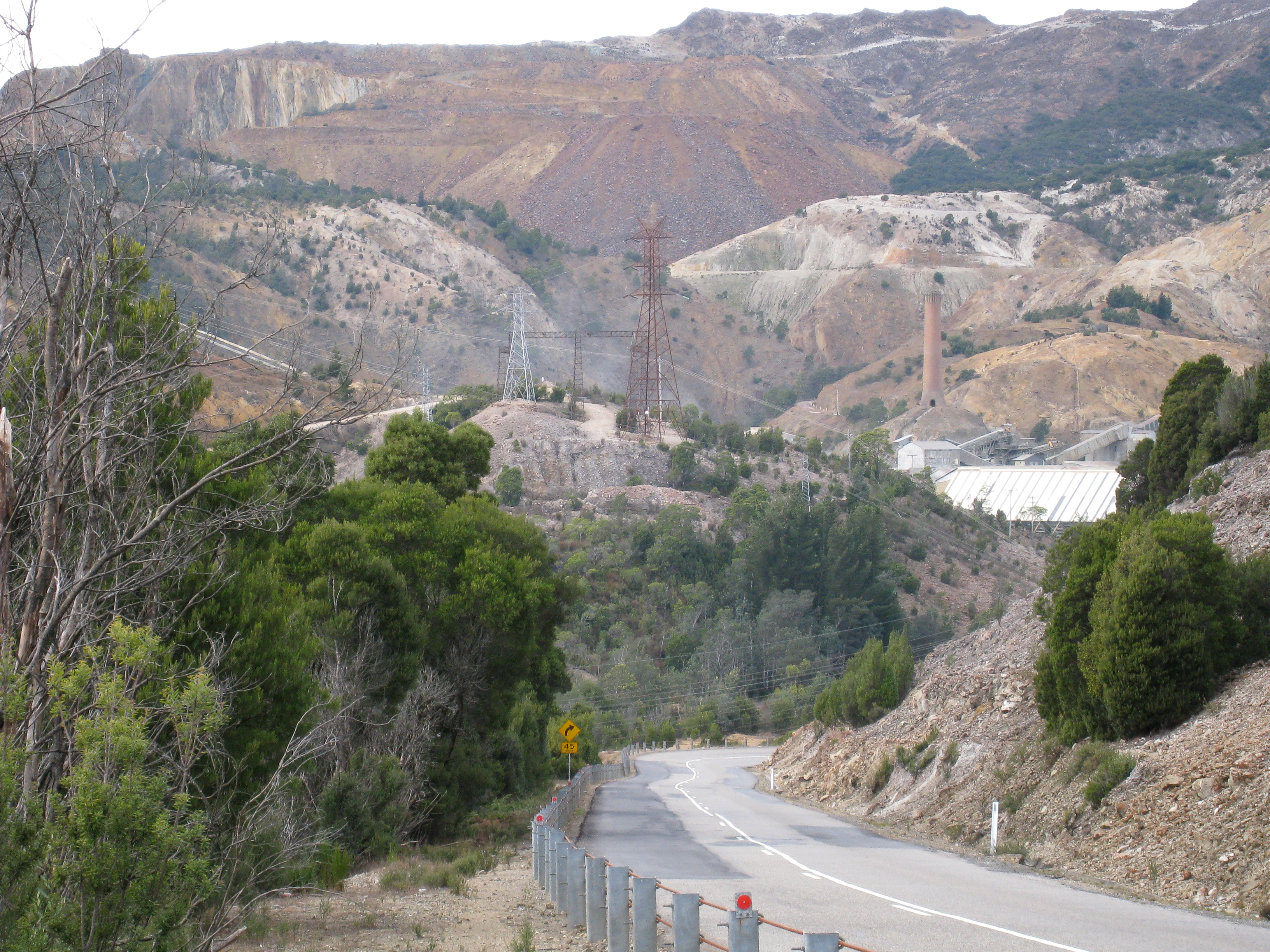 Landscape near Queenstown, Tasmania